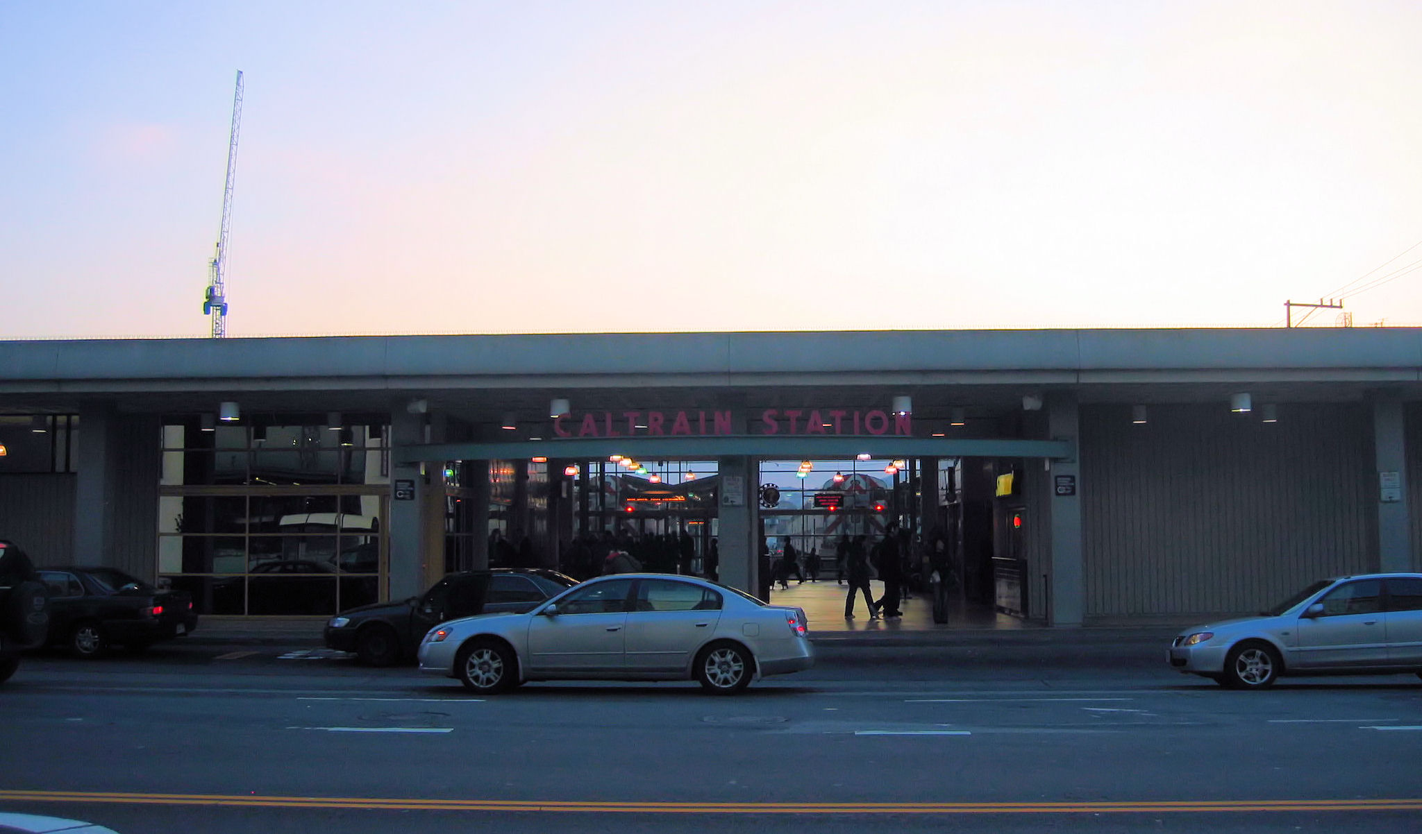 The front of Caltrain San Francisco 4th & King Station